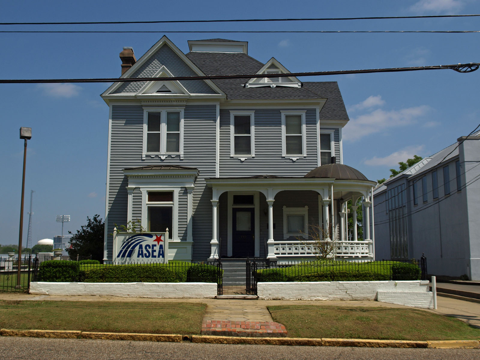 Front (west) side of the Cassimus House in Montgomery, Alabama